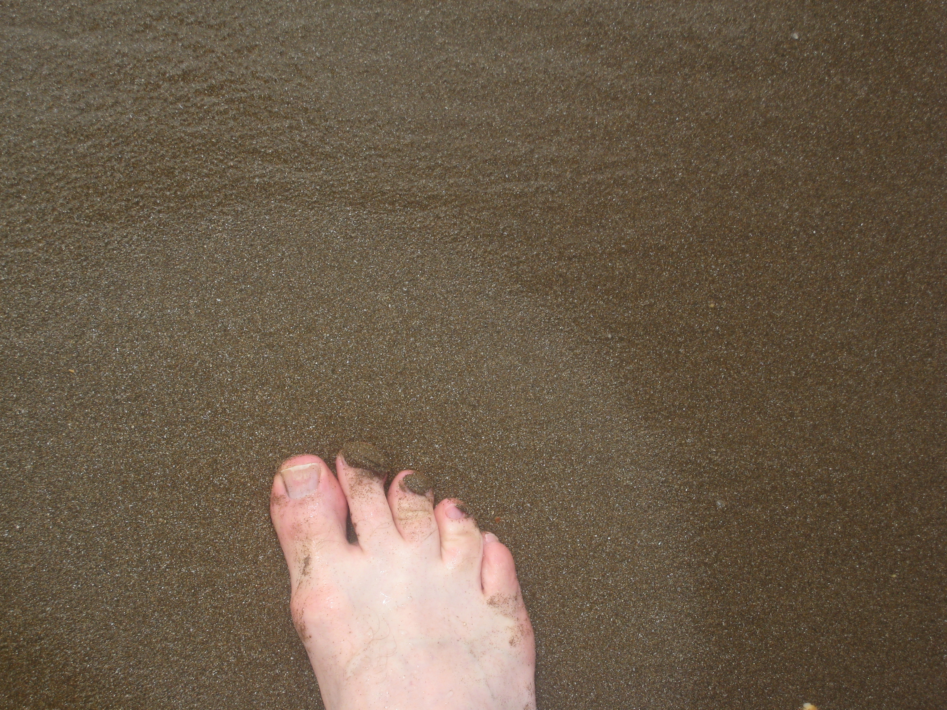 Close-up of foot causing dry spot on wet beach sand. Dilation of sand as it is sheared causes it to suck water in the pores so the surface appears dryer.